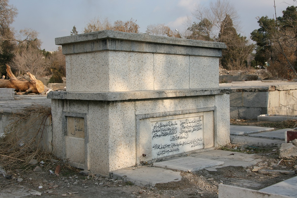 Ibn Babawayh Cemetery